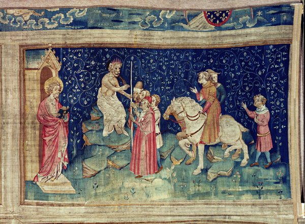 Château d'Angers; Angers; Pays de la Loire, Maine-et-Loire; France; Tenture de l'Apocalypse; no 46, Le chiffre de la bête; Cultural heritage; Cultural heritage|Tapestry; Europeana; Europe|France|Angers; Hennequin de Bruges (Jan Bondol en flamand); connu également sous les noms de Jean de Bruges ou de Jean de Bondol ou encore Jean de Bandol; ; Ref.: PMa_ANG043_F_Angers